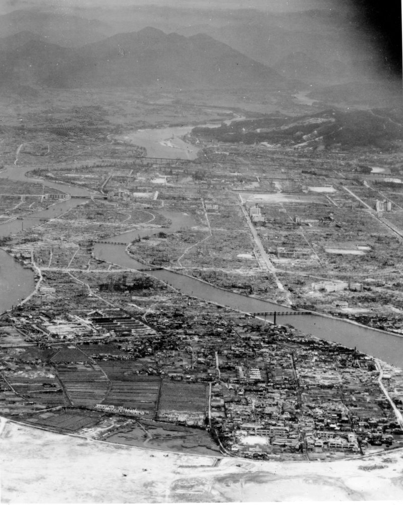 PictionID:38276104 - Catalog:AL-135B 208 - Filename:AL-135B 208.tif - This image is from a photo album donated to the Museum by JL Highfill which includes images taken in the Pacific during the Second World War-----------PLEASE TAG this image with any information you know about it, so that we can permanently store this data with the original image file in our Digital Asset Management System.-----------------SOURCE INSTITUTION: San Diego Air and Space Museum Archive